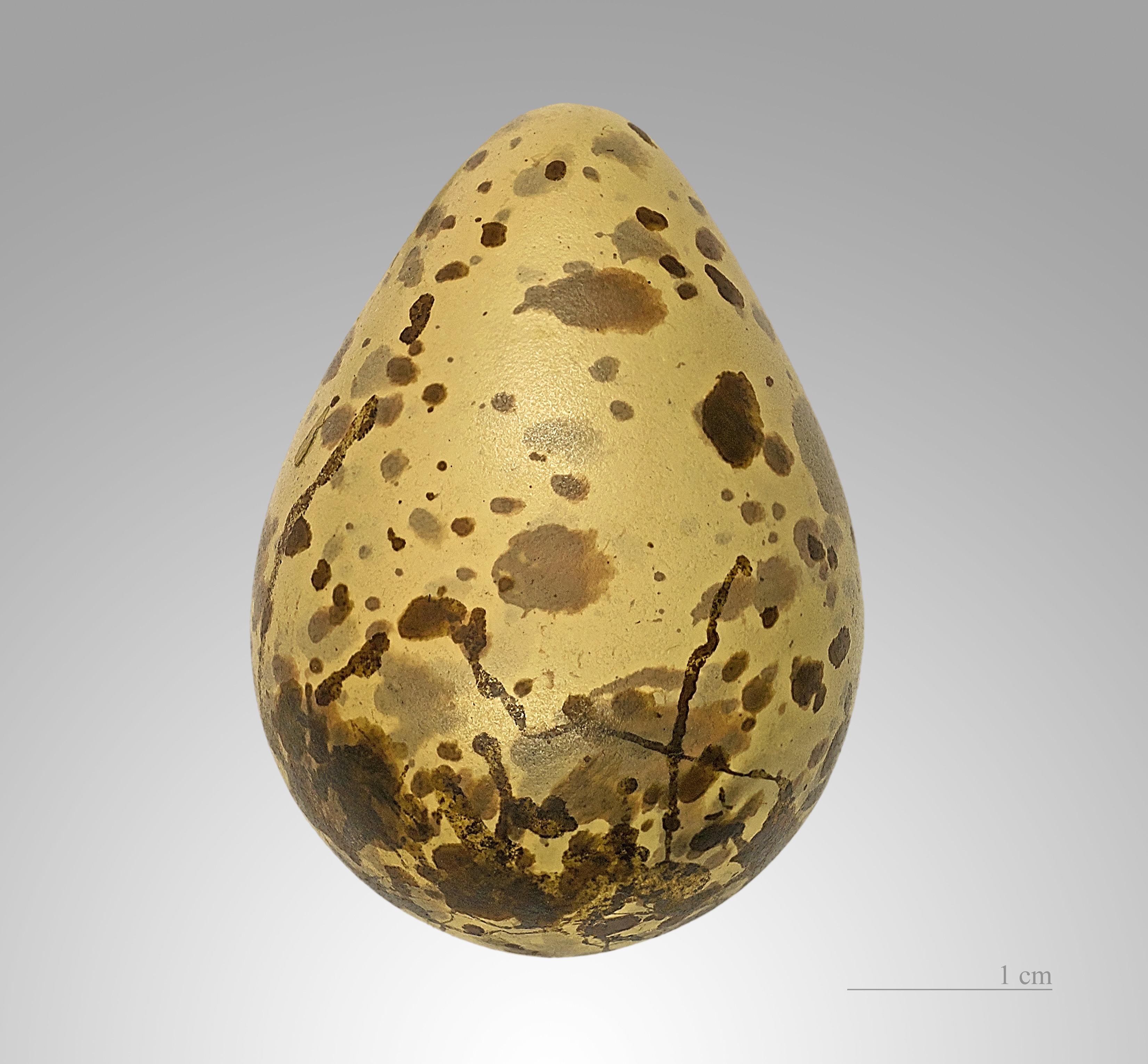 Egg of Common Snipe - Former collection of Henri Heim de Balsac/Jacques Perrin de Brichambaut